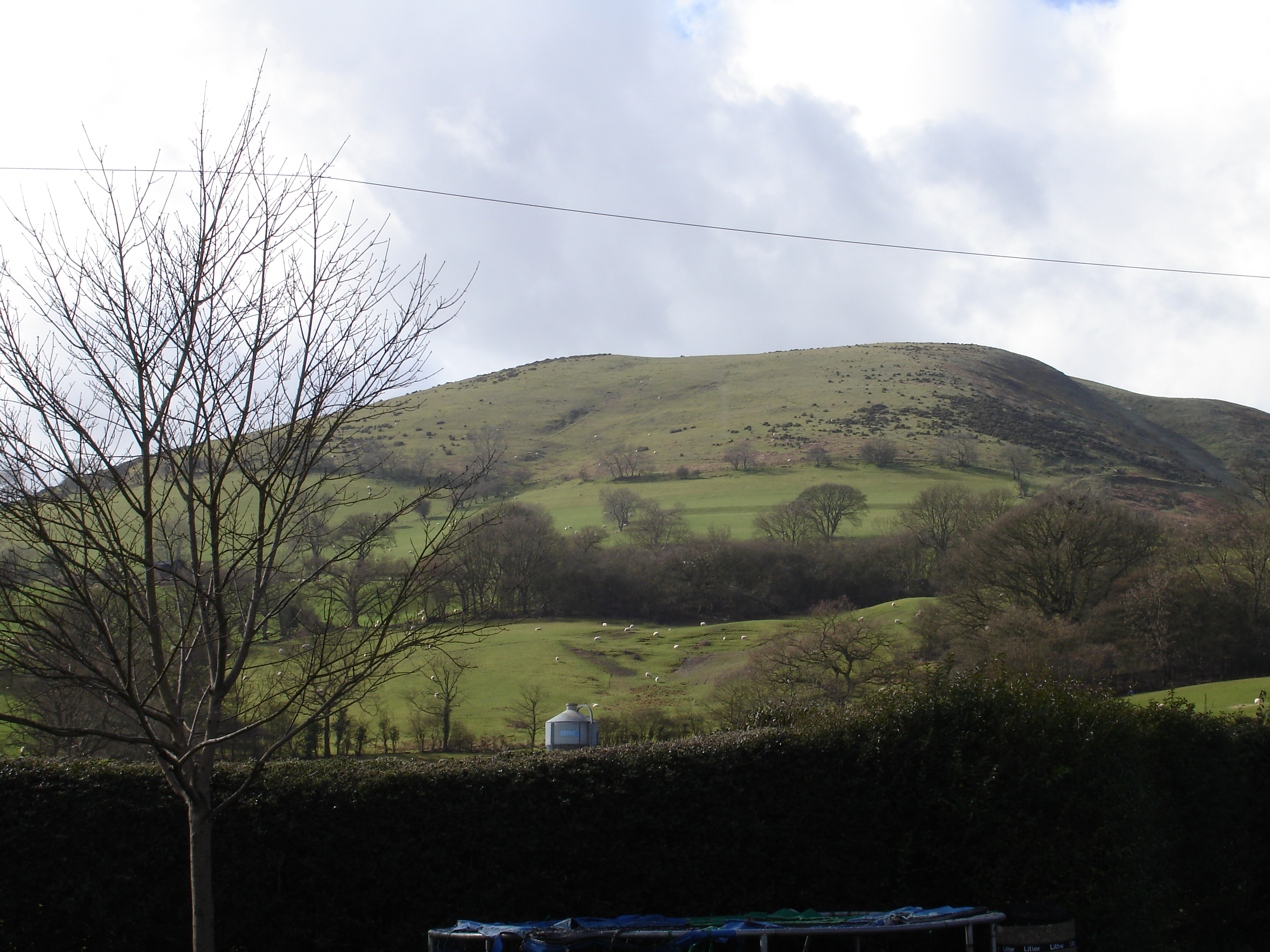 Long Mynd seen from below at Little Stretton. S Knights, my photo, March 2007